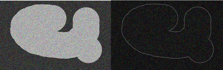 edge detection via Sobel operator Česky: detekce hran Sobelovým filtrem